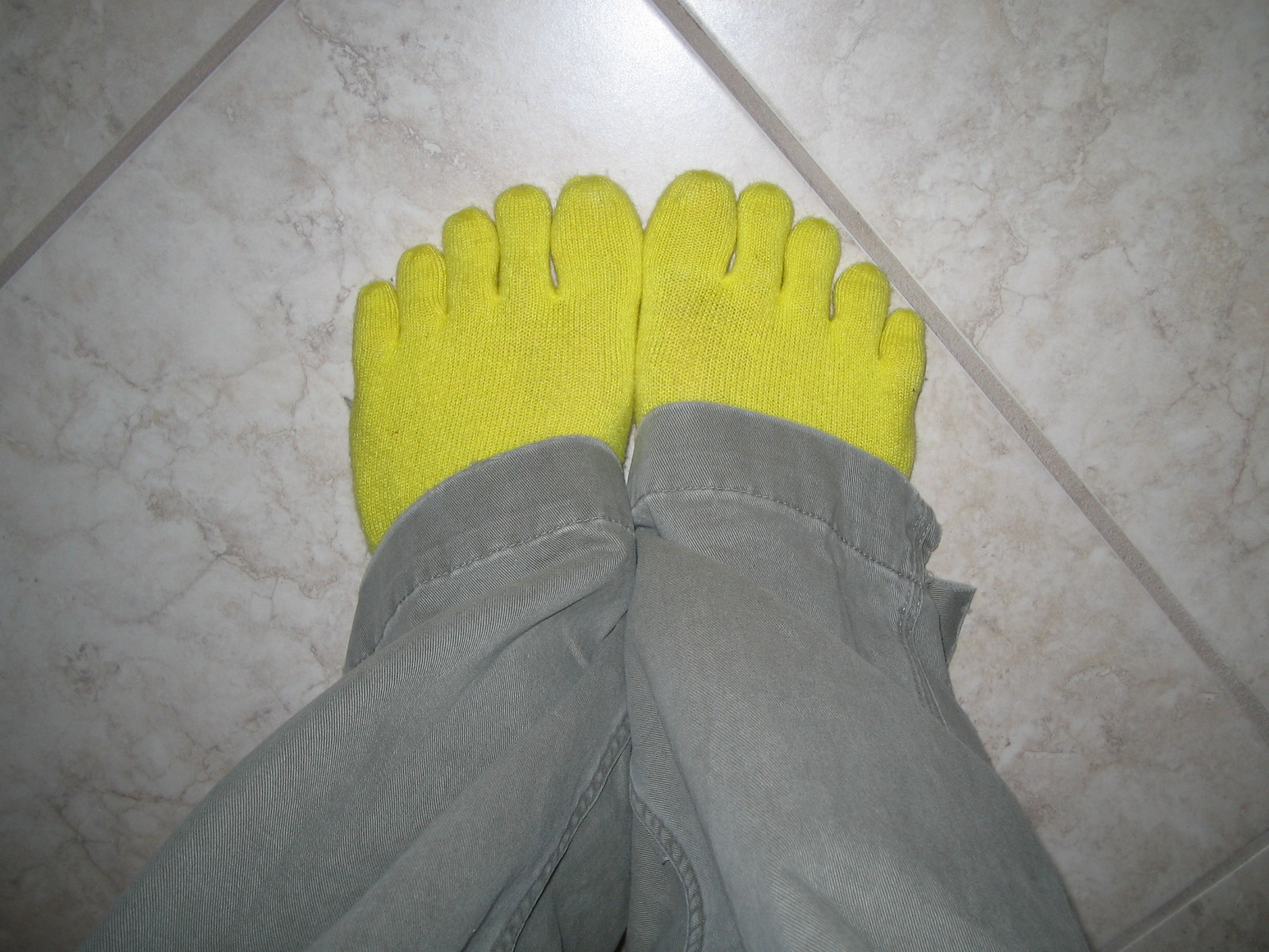 A person wears yellow-green toe socks.